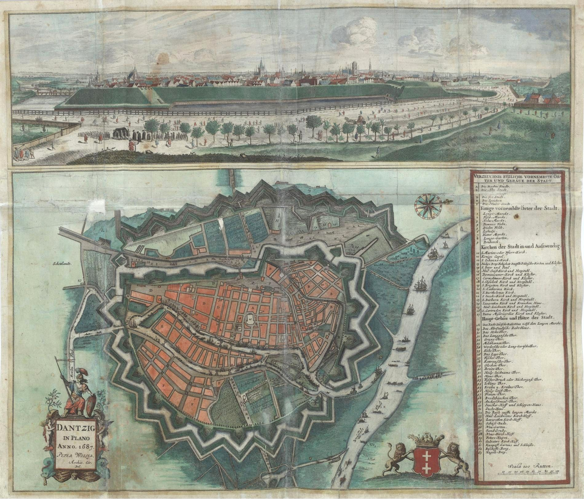 Map "Dantzig in Plano" of Danzig (Gdańsk), with a panorama seen from the north